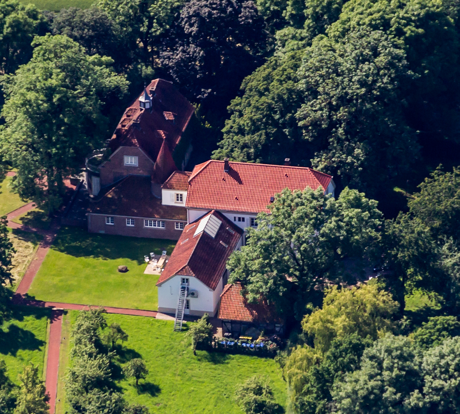 Schwickering Manor near Rorup, Dülmen, North Rhine-Westphalia, Germany This image shows a heritage building in Germany, located in the North Rhine-Westphalian city Dülmen (no. 73).